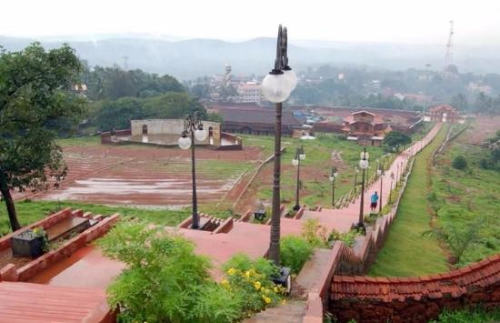 This is a view of Kottakkunnu, a famous tourism site in the city of Malappuram in Kerala.